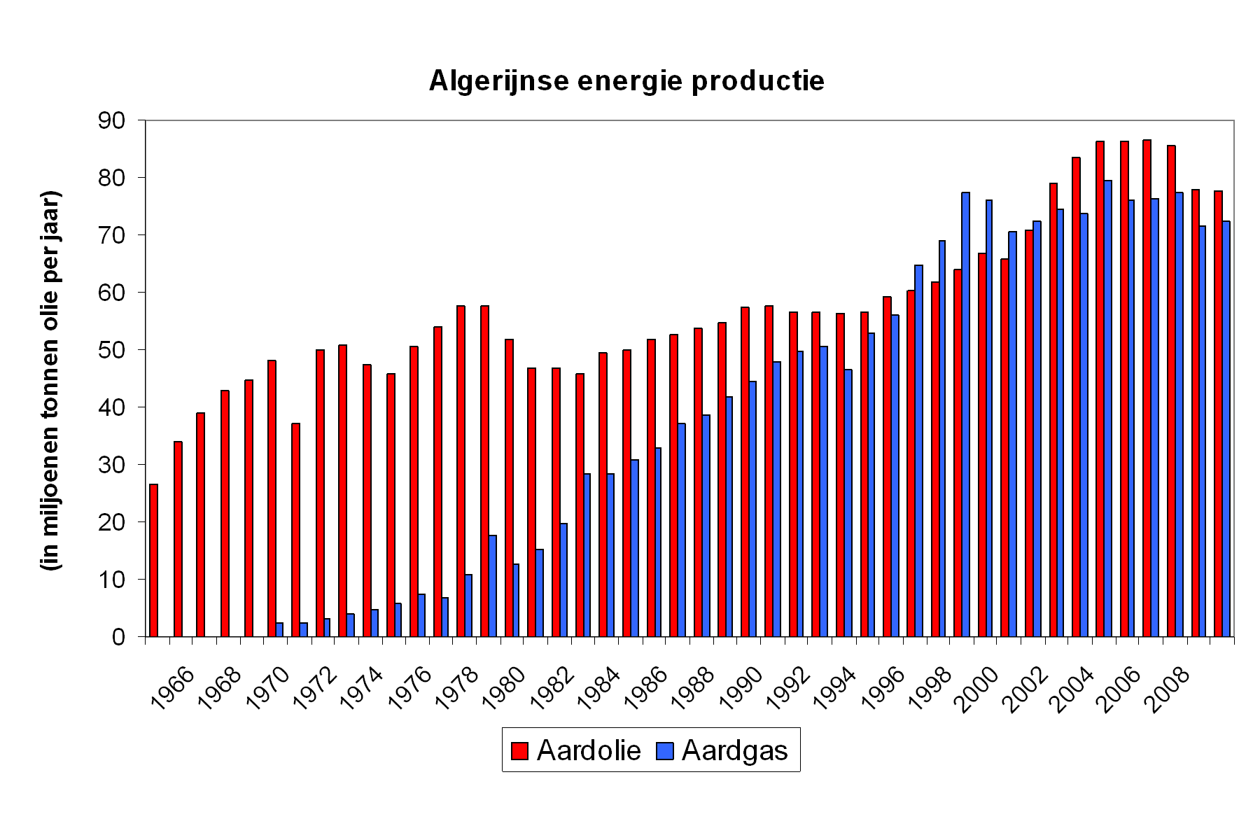 Algeria, annual production of oil and gas in million tons for the years between 1965 and 2010. Source: BP Statistical Review of World Energy 2011